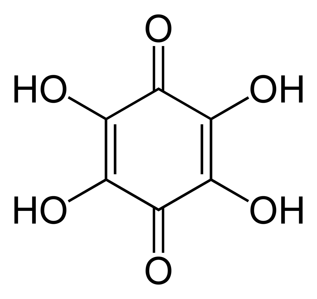 Skeletal formula of the tetrahydroxy-1,4-benzoquinone molecule, C6H4O6. Structure drawn in ChemDraw Ultra 11.0.